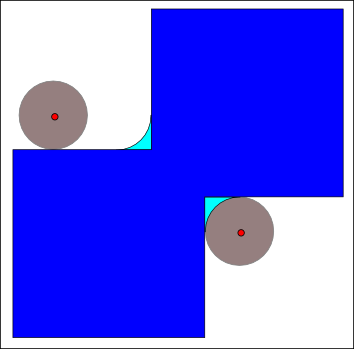 Author: Renato Keshet; Date: Jul 7th, 2008; Created in Inkscape.